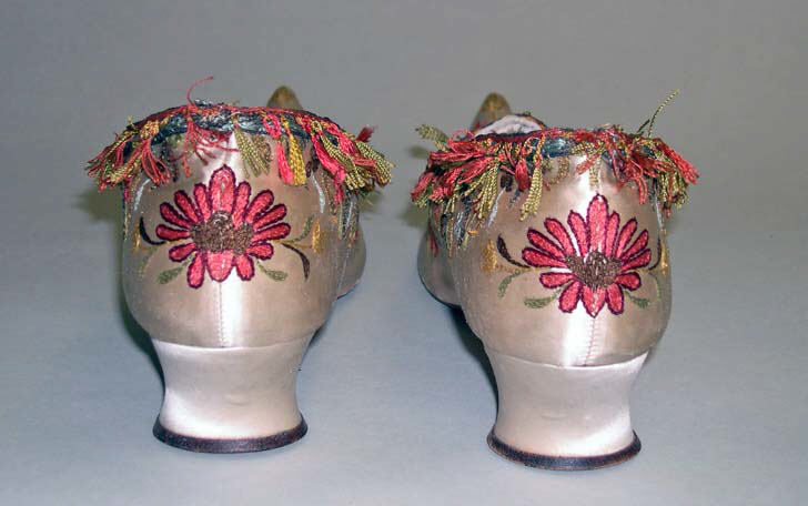 French; Shoes